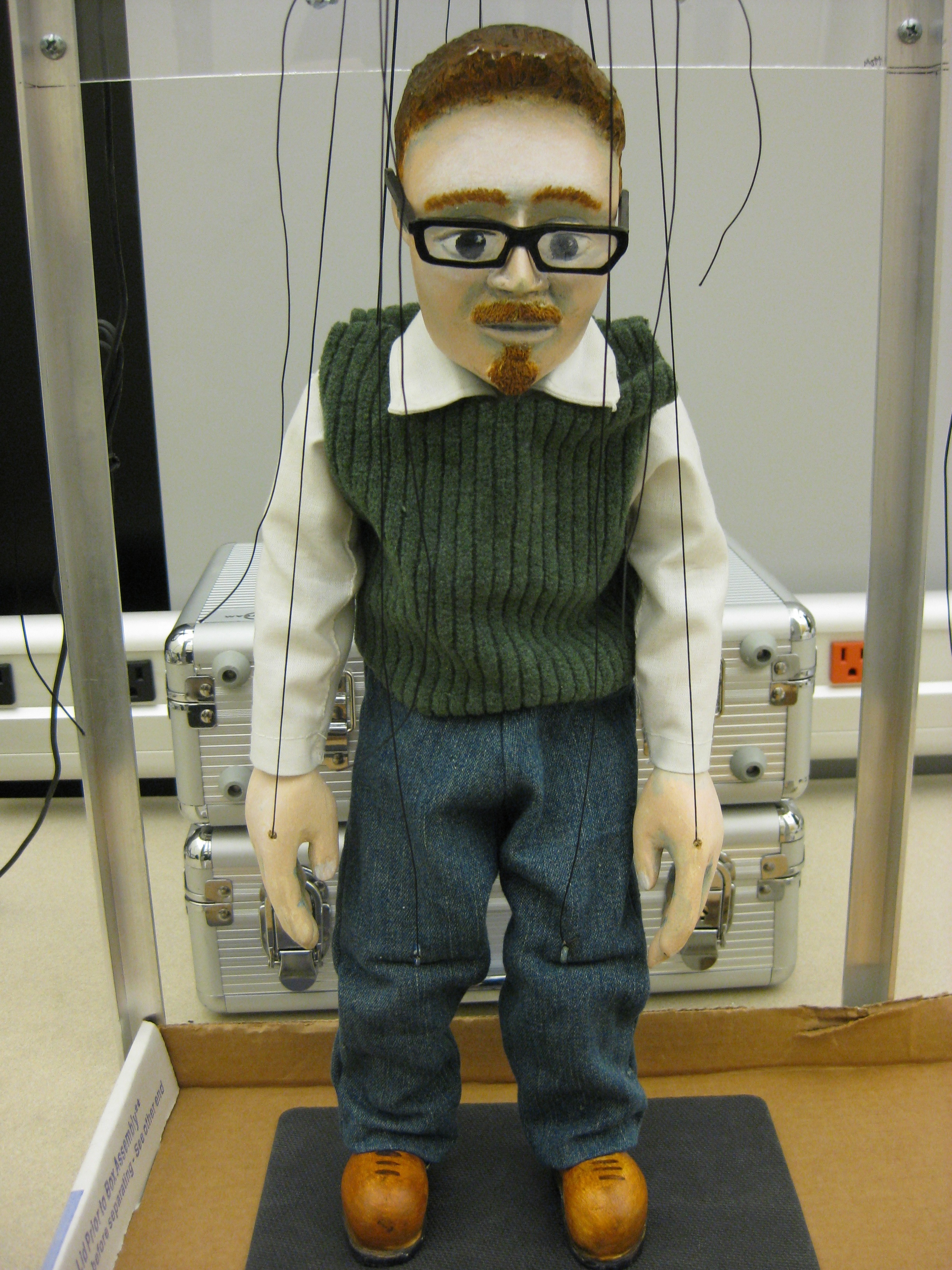 A puppet version of Magnus B. Egerstedt, Associate Professor at the Georgia Institute of Technology. Part of the National Science Foundation project "Puppet Choreography and Automated Marionettes" (see abstract here).